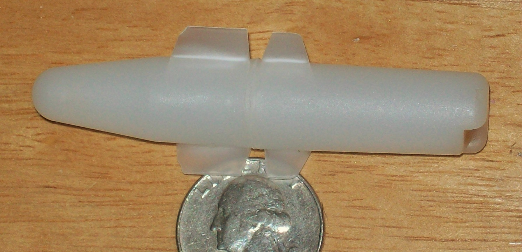 Plastic widget used in Guinness beer bottles. Size is approx 3 inches or 7 cm; fins keep it in the bottle. The flat end shown at right hangs down in the bottle, and that is the location of the small hole.